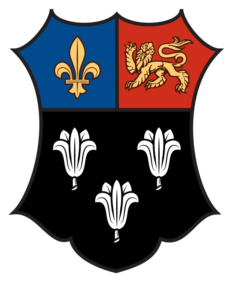 Old coat of arms of Eton College